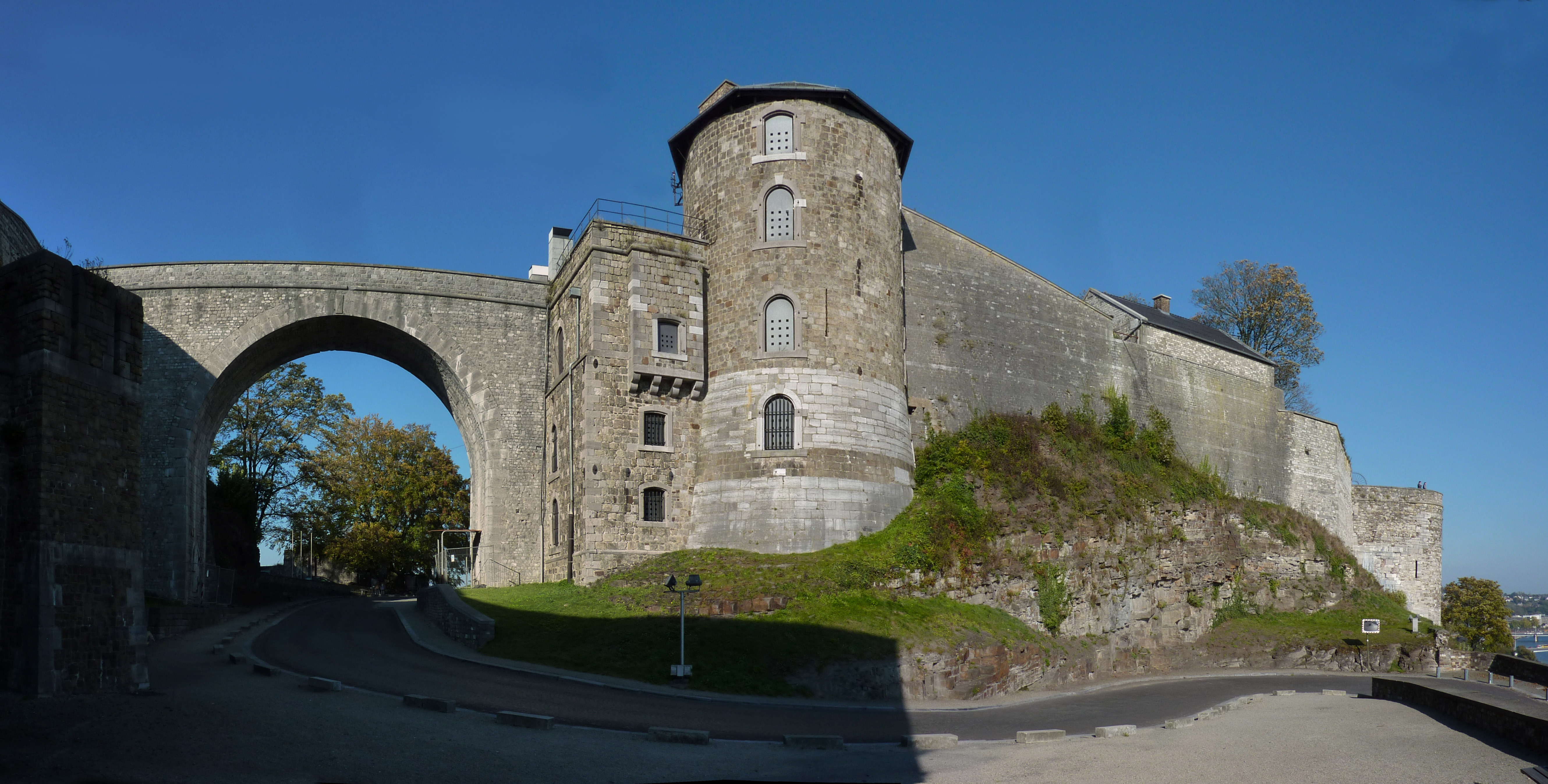 Road crossing itself in the Namur Citadel